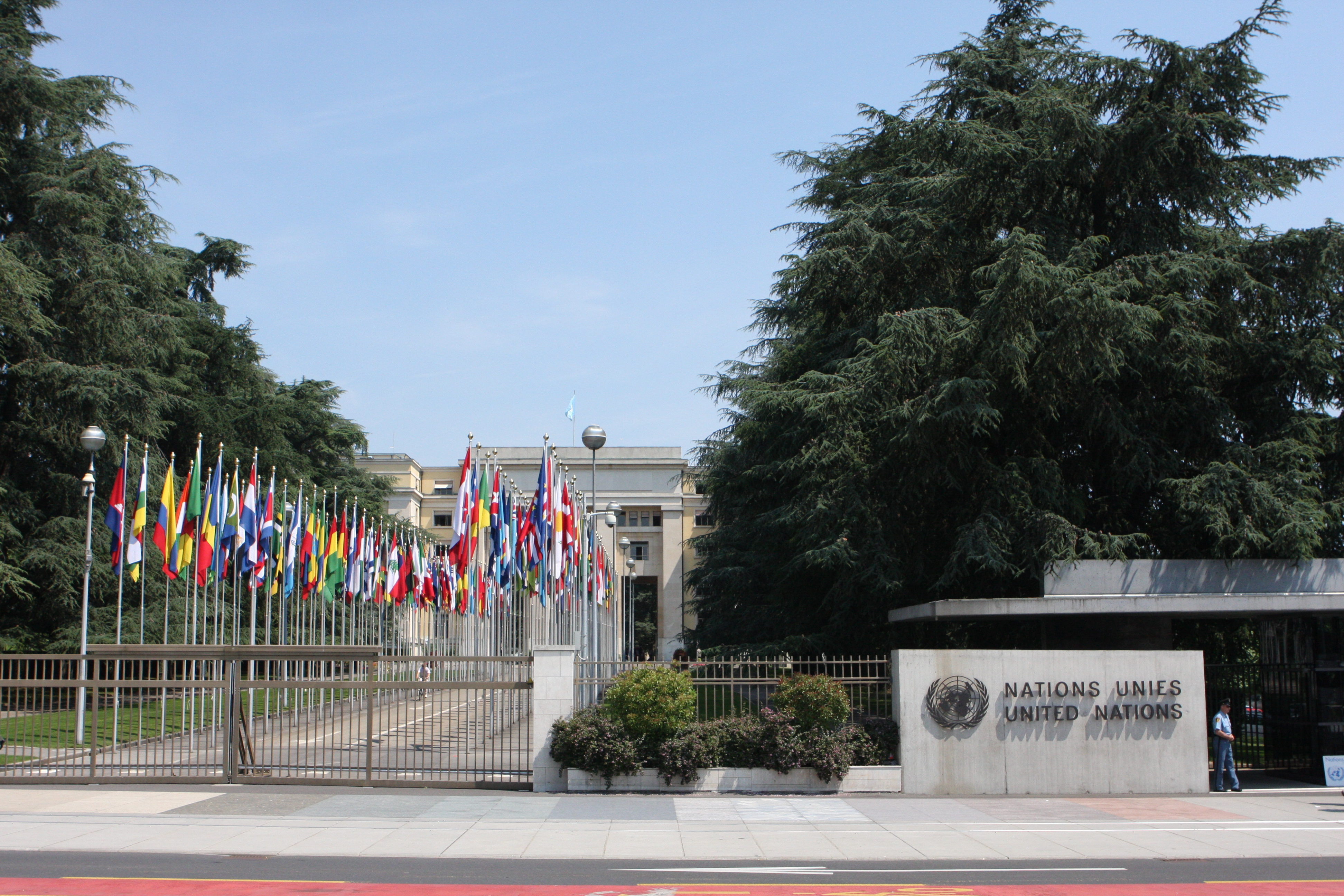 The Palace of Nations (United Nations Office at Geneva), seen from the Place des Nations.